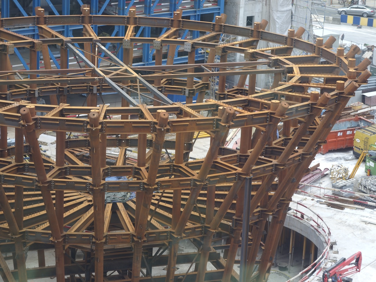 The base of the prominent "latern-shaped" structure of the Europa building, housing the main meeting rooms of European Council and the Council of the EU, under construction in August 2012.